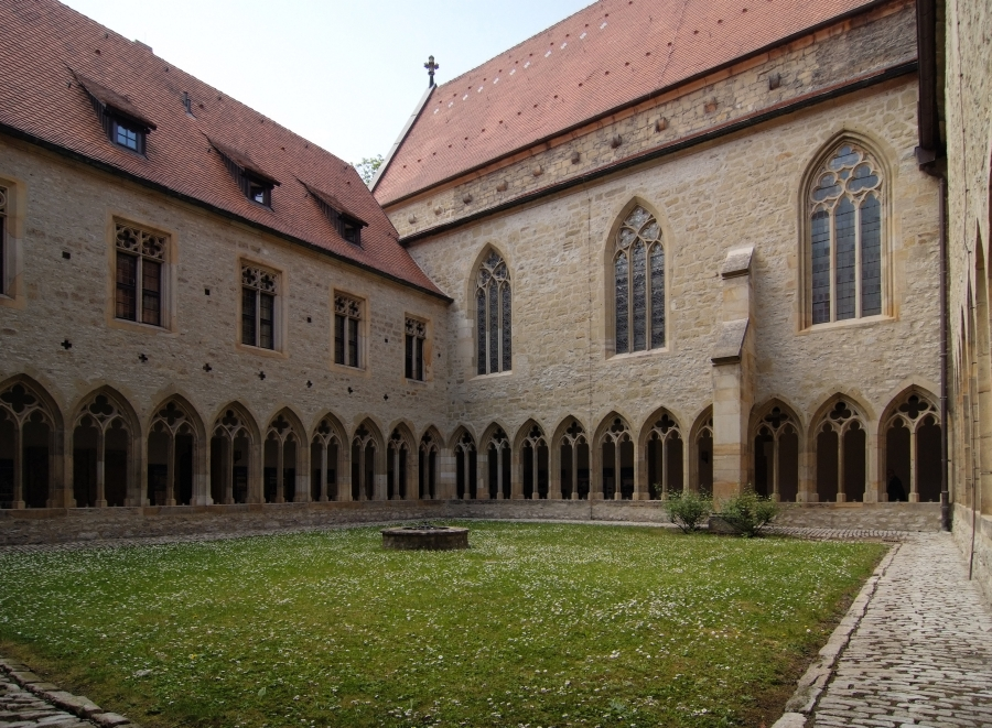 Augustinerkloster in Erfurt Kreuzgang